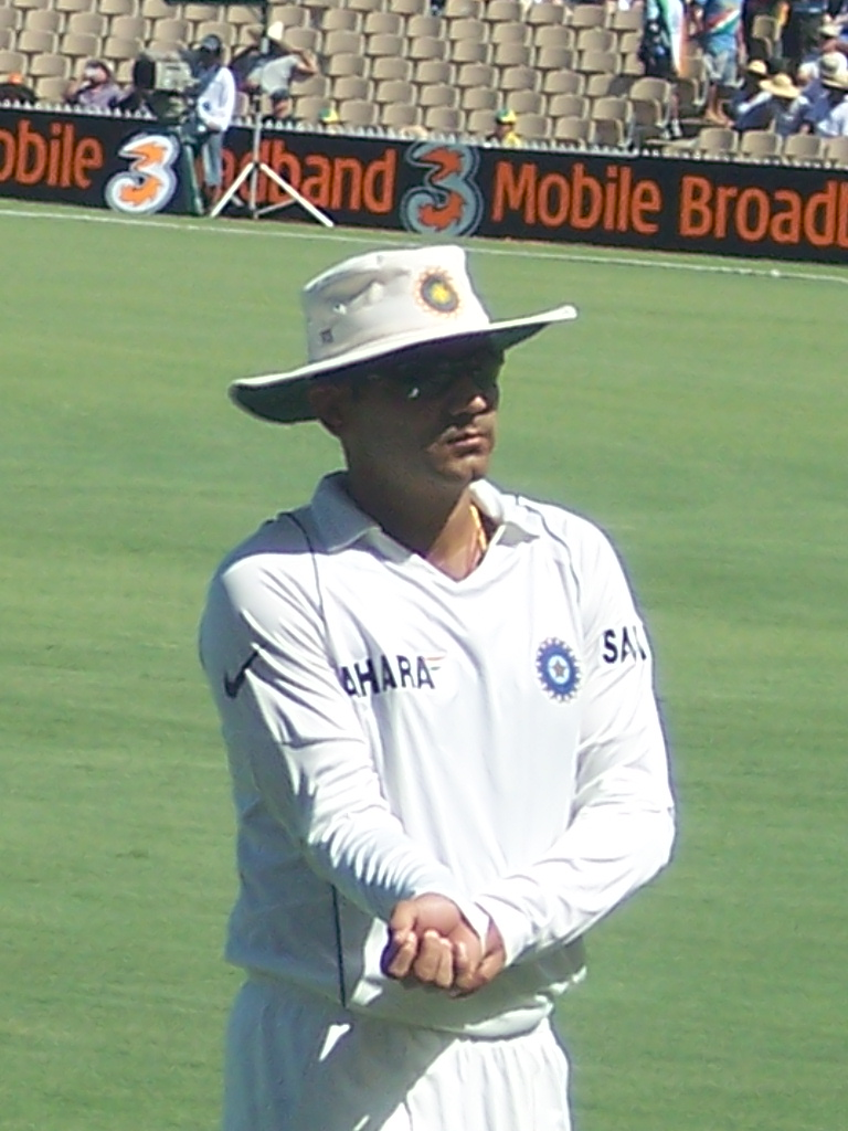 Virender Sehwag, Indian cricketer. 4 Test series vs Australia at Adelaide Oval